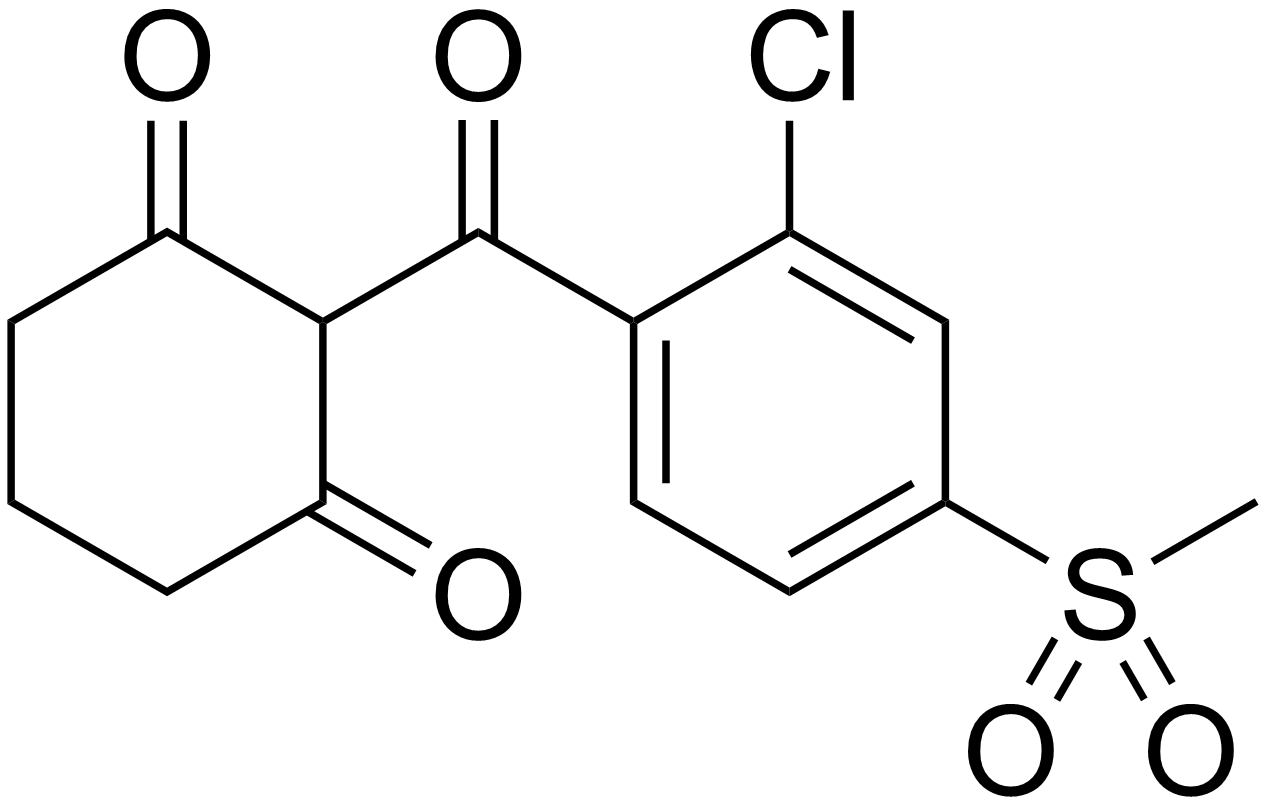 chemical structure of sulcotrione created using ChemSketch